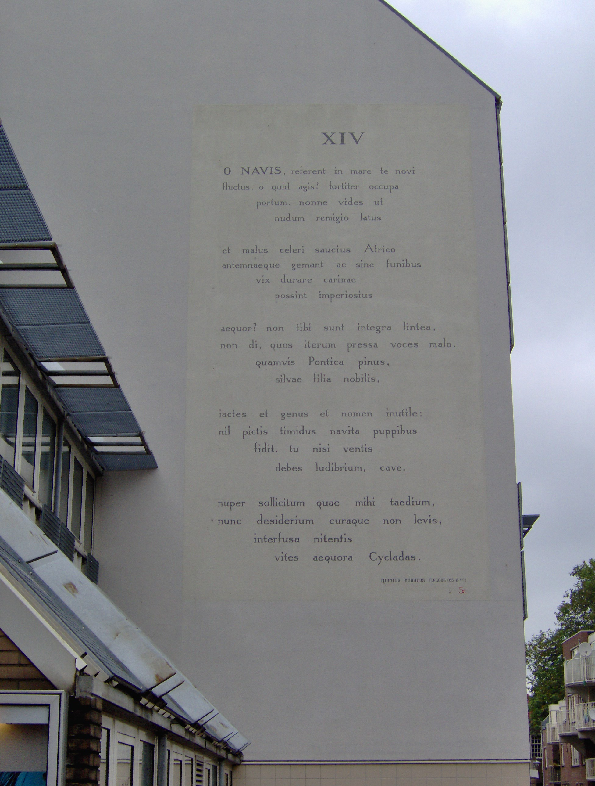 A poem of the Roman lyric poet Horace on a wall of the building at the Cleveringaplaats 1, Leiden, The Netherlands